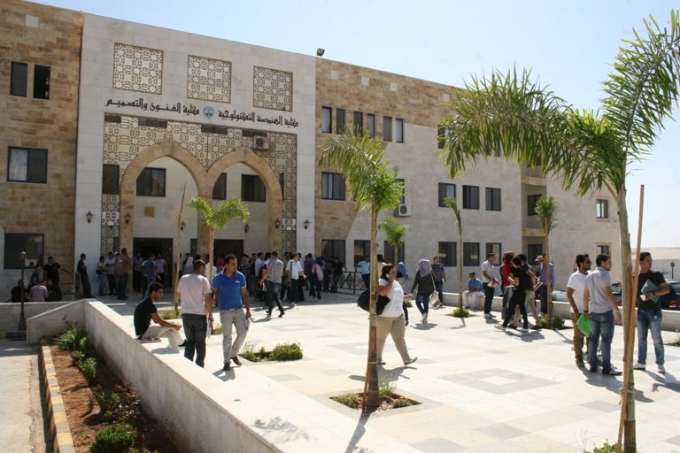 building engineering